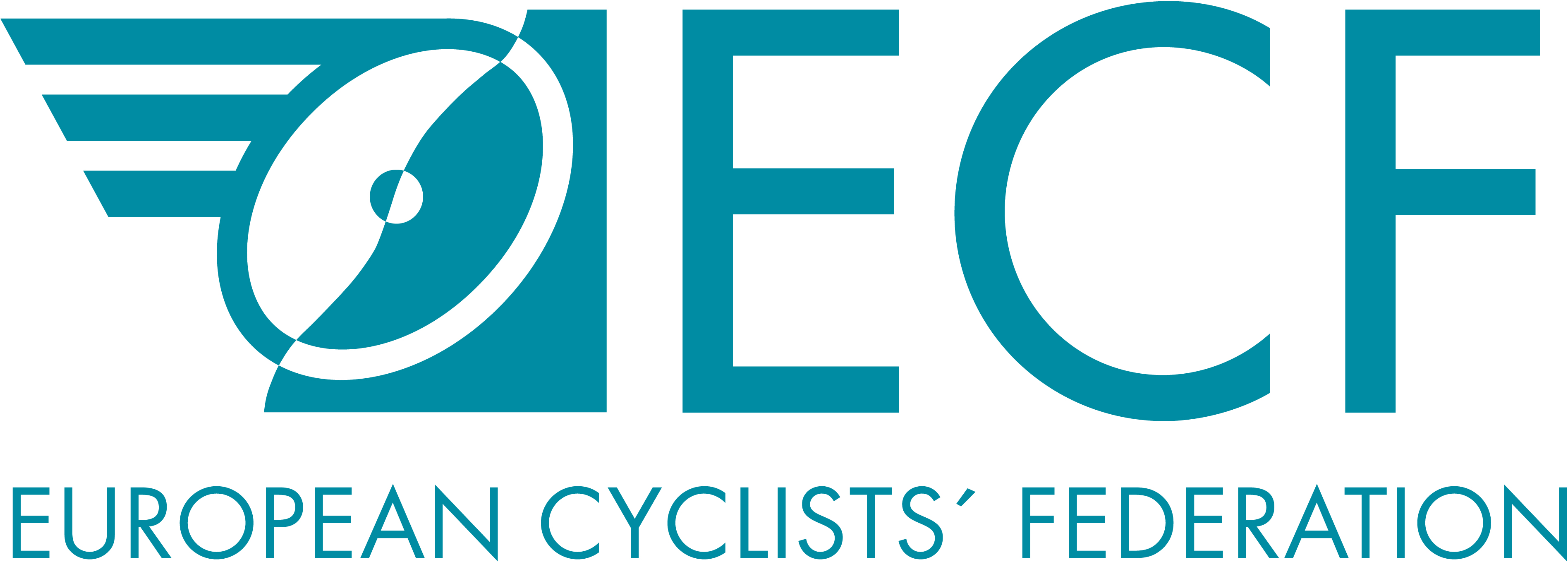 This is the Logo of the European Cyclists' Federation